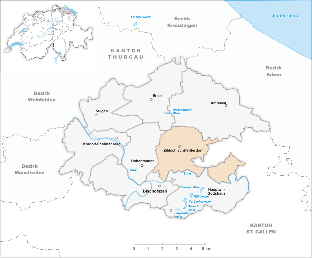 Municipality Zihlschlacht-Sitterdorf